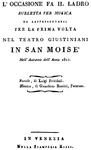 Gioachino Rossini - L’occasione fa il ladro - titlepage of the libretto - Venice 1812